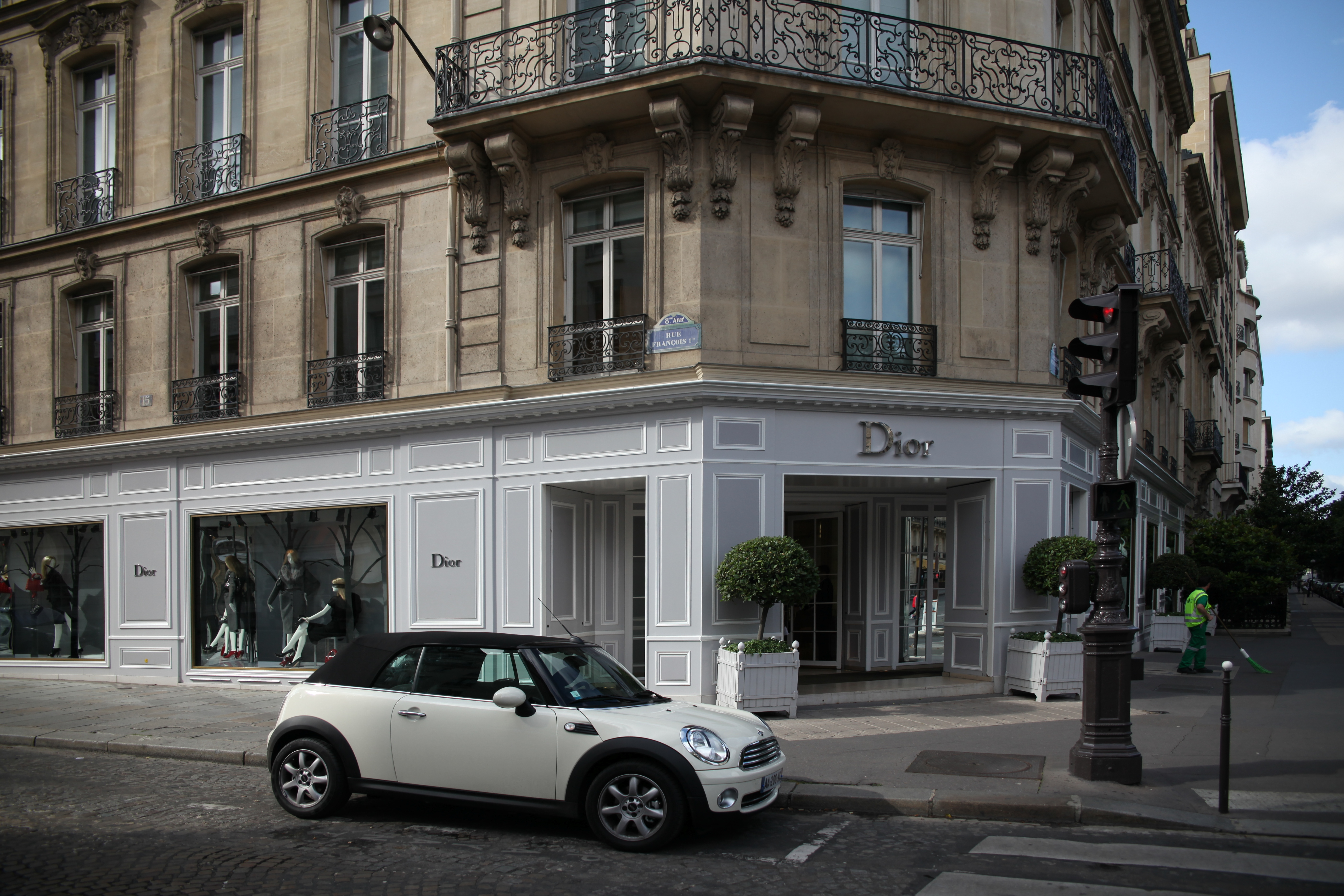 Christian Dior, 30 Avenue Montaigne, Paris.